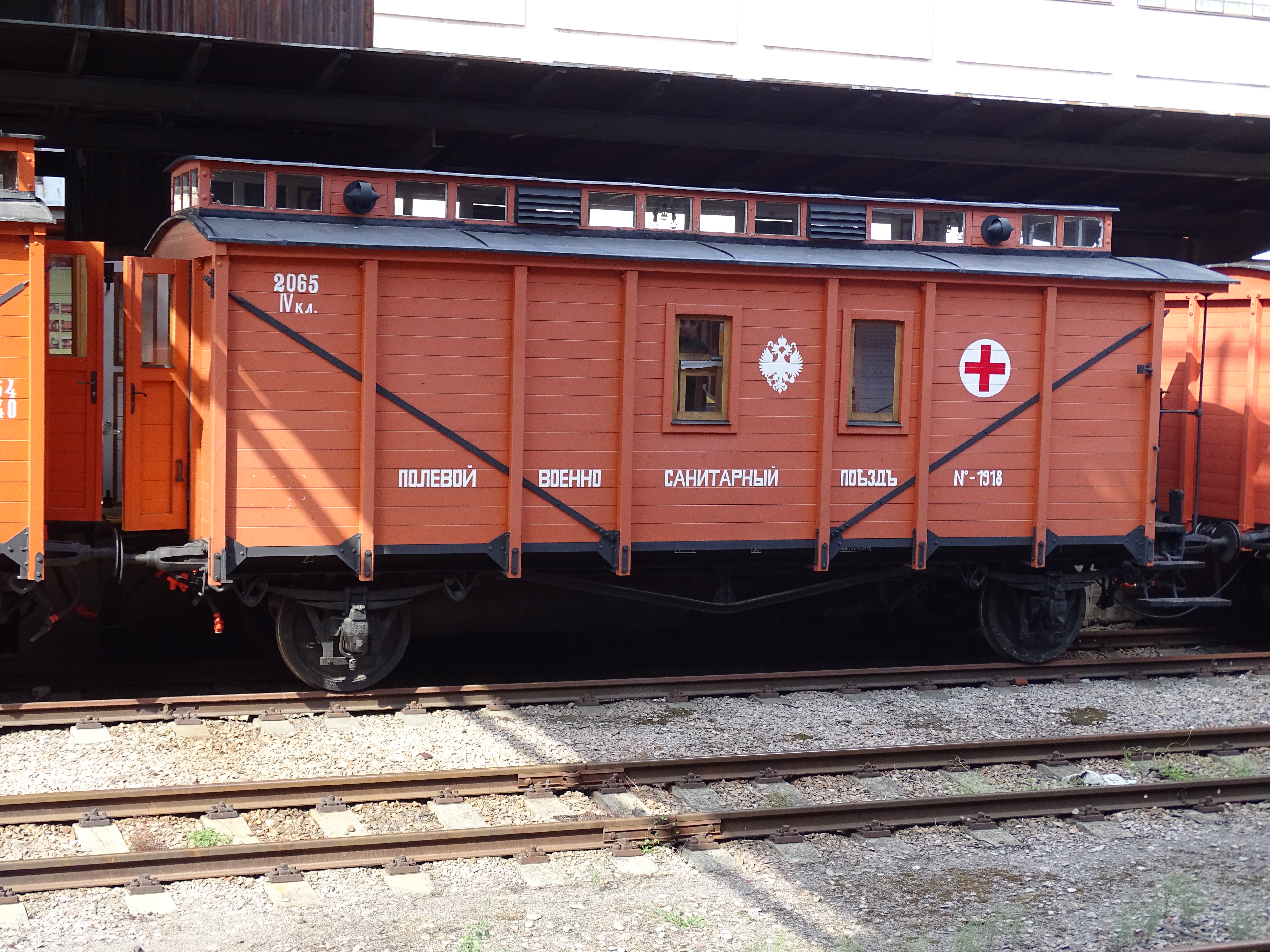 Prague-Žižkov, Czech Republic. Jana Želivského 2200/2, Praha-Žižkov freight station. A replica of a train of Czechoslovak Legion.